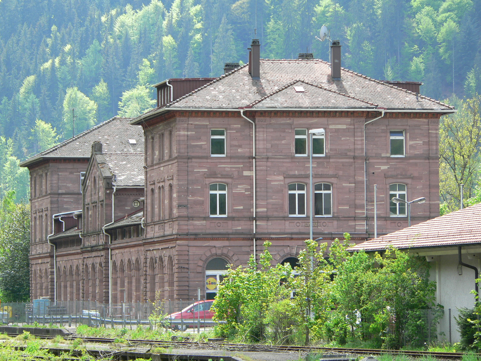 Former station of Calw, Germany